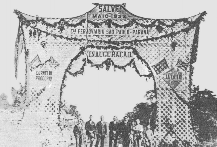 Inauguração do trecho da Estrada de Ferro São Paulo-Paraná entre Cornélio Procópio e Jataizinho em 1932.